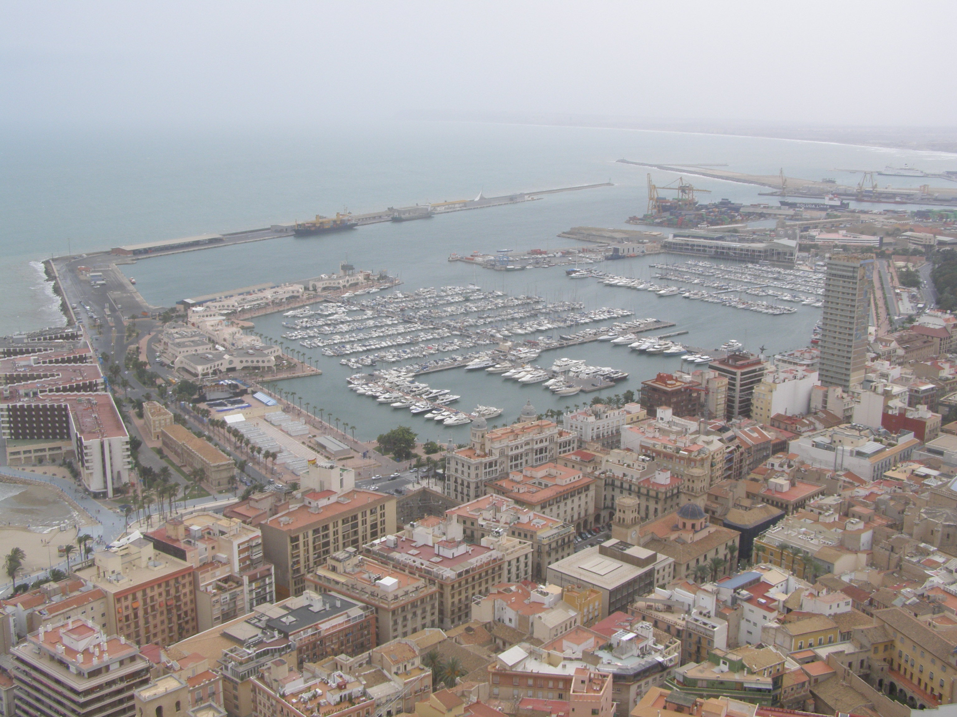 A view of Alicante, Spain from Castillo de Santa Barbara (Castle of Santa Barabara)